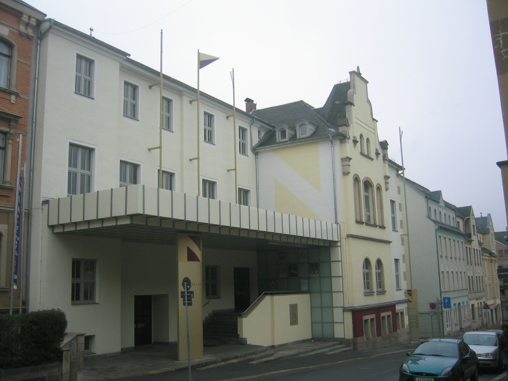 Reichenbach im Vogtland, Germany: Neuberinhaus (communal culture centre, named after the Reichenbach-born actress and impresario, Caroline Neuber)